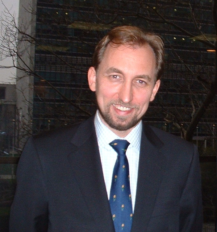 Prince Zeid Ra'ad Zeid Al-Hussein of Jordan, photo by Wl219